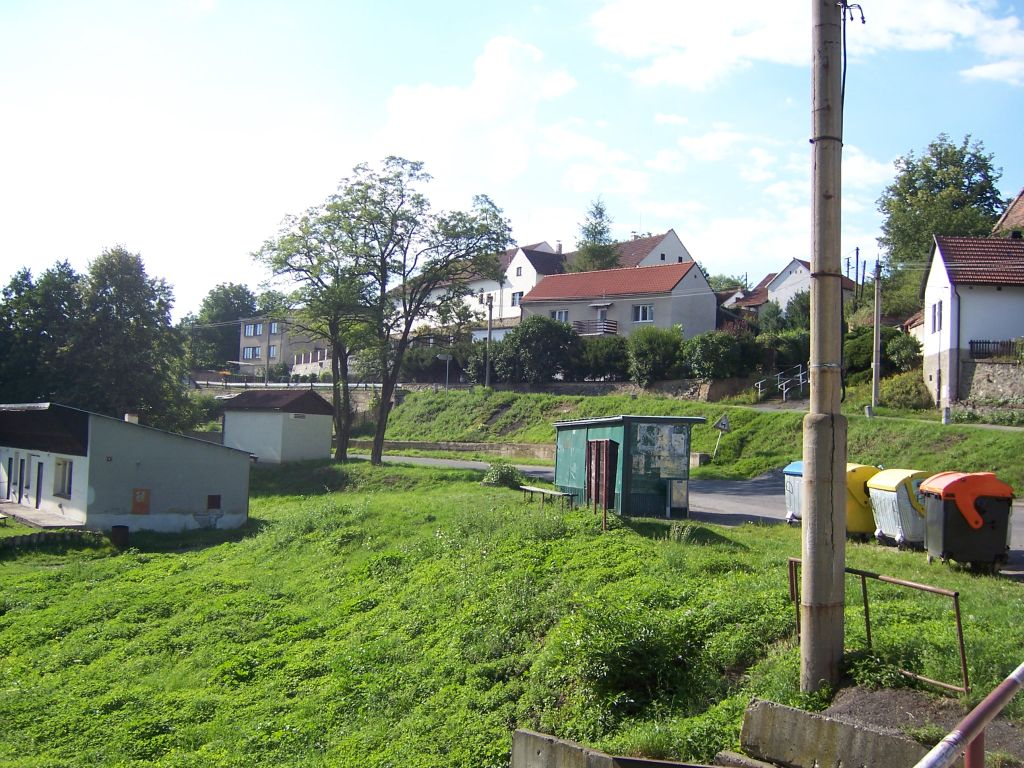 Vodochody